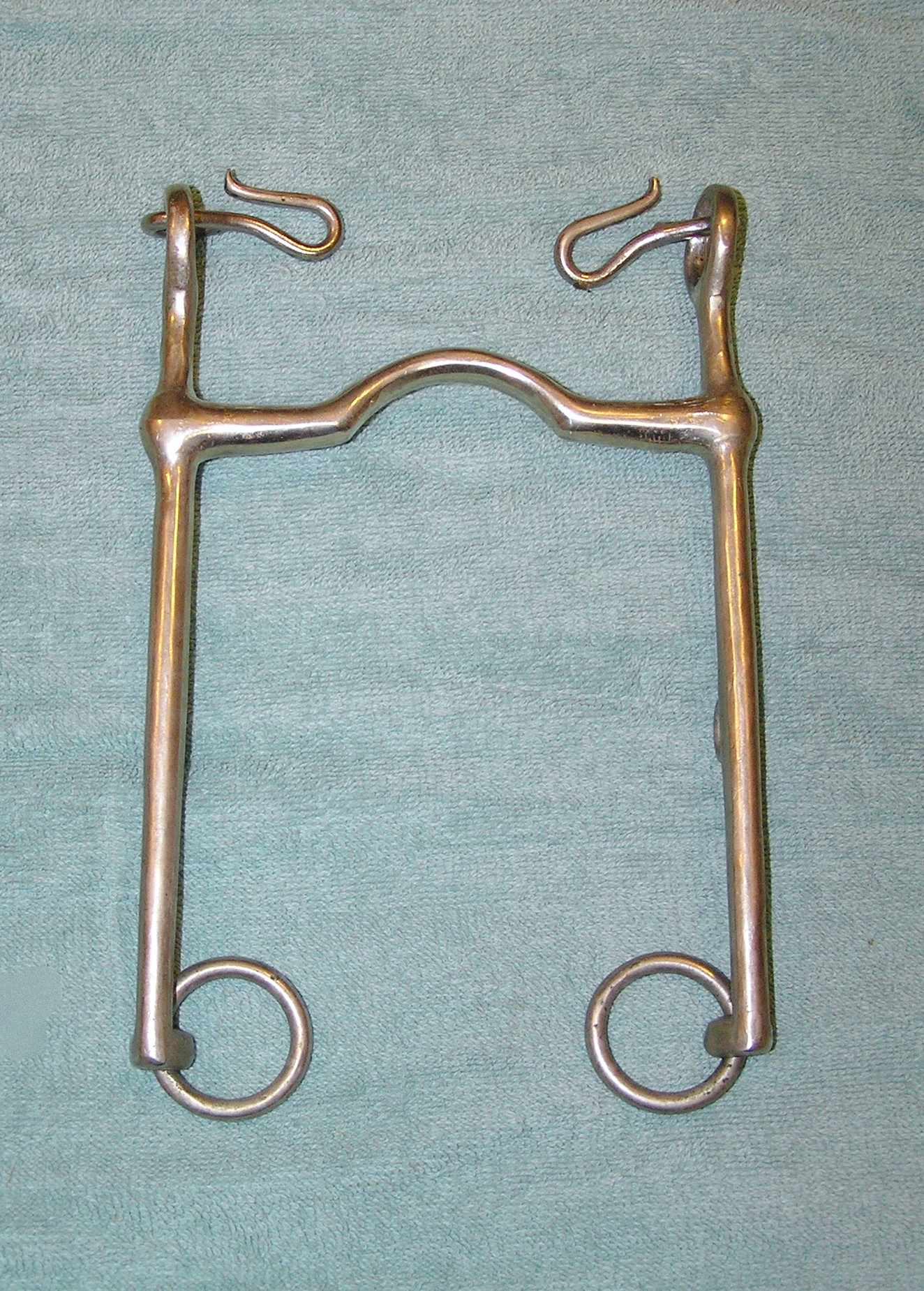 A weymouth style English curb bit. Long shank style is used primarily in Saddle Seat style riding